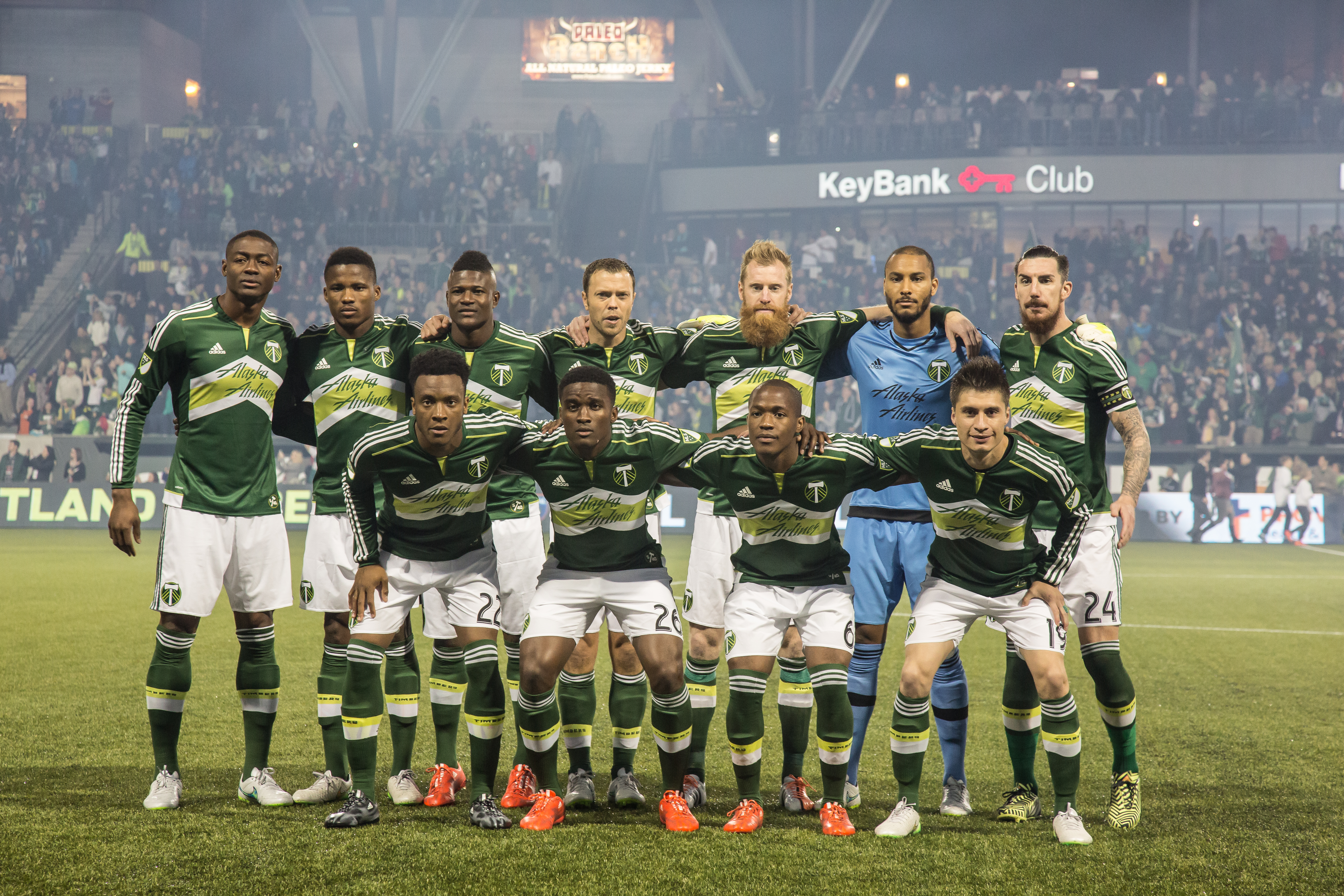 Portland Timbers lineup vs RSL. 2015 MLS Season.